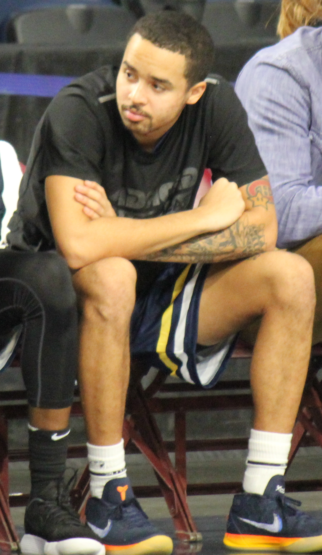 halifax